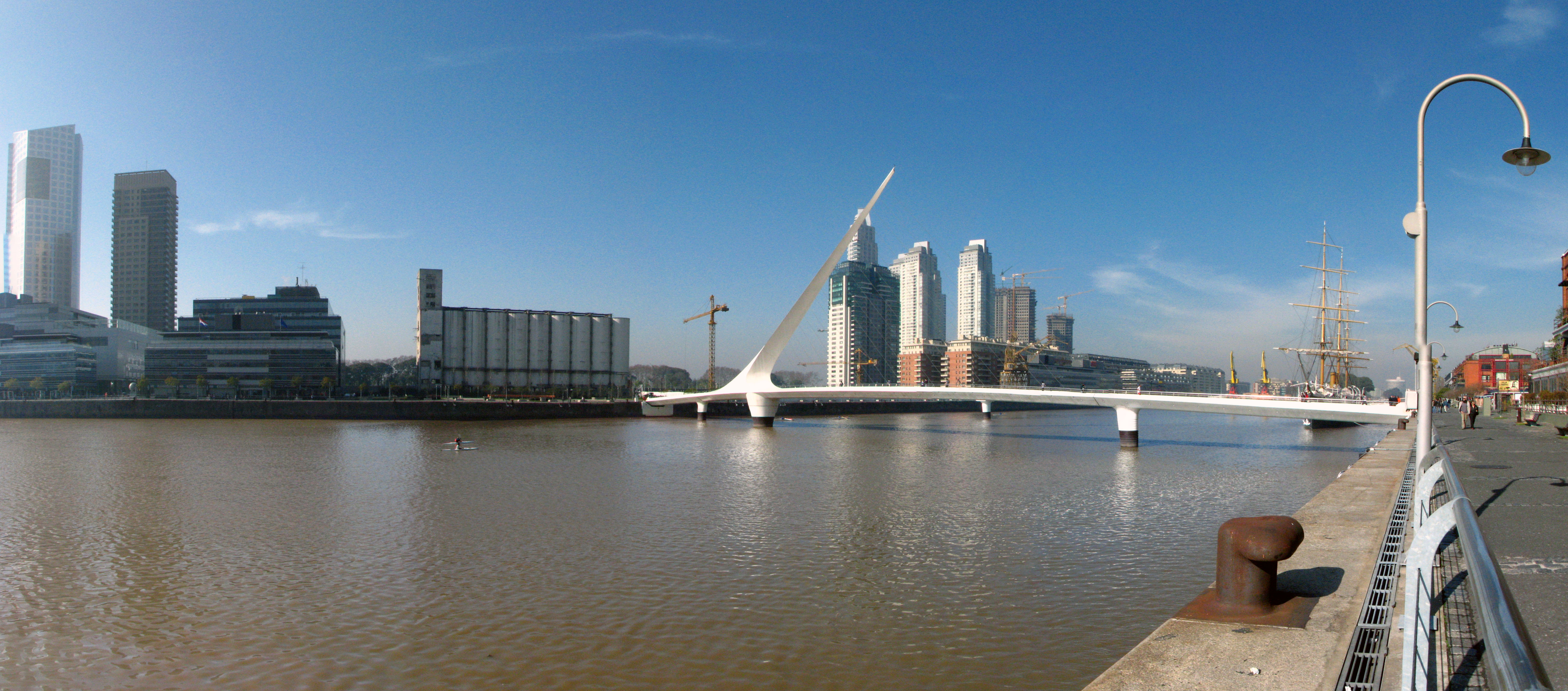 "Puente de la Mujer", literally "Bridge of the Woman", a Bridge in Buenos Aires